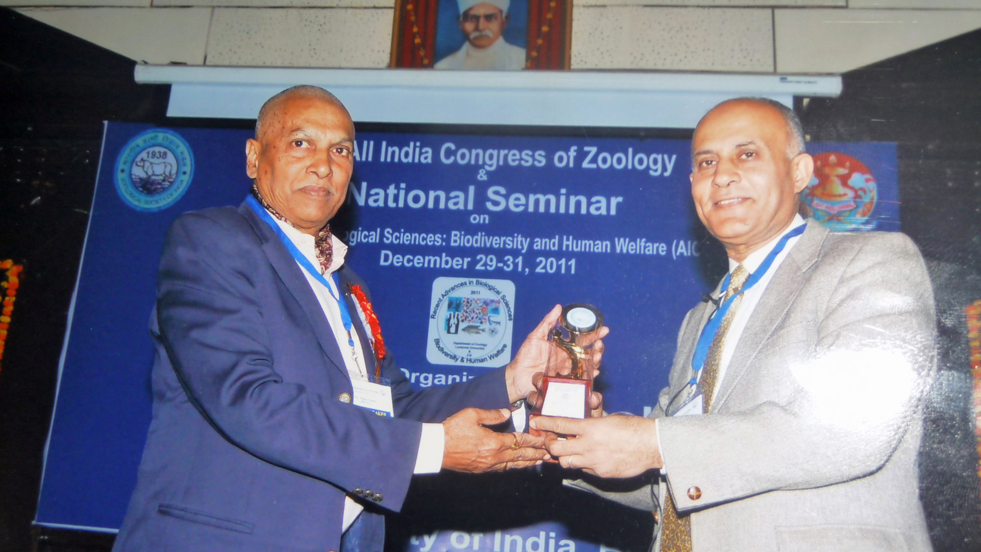 جائزة المؤتمر بجامعة لكنو